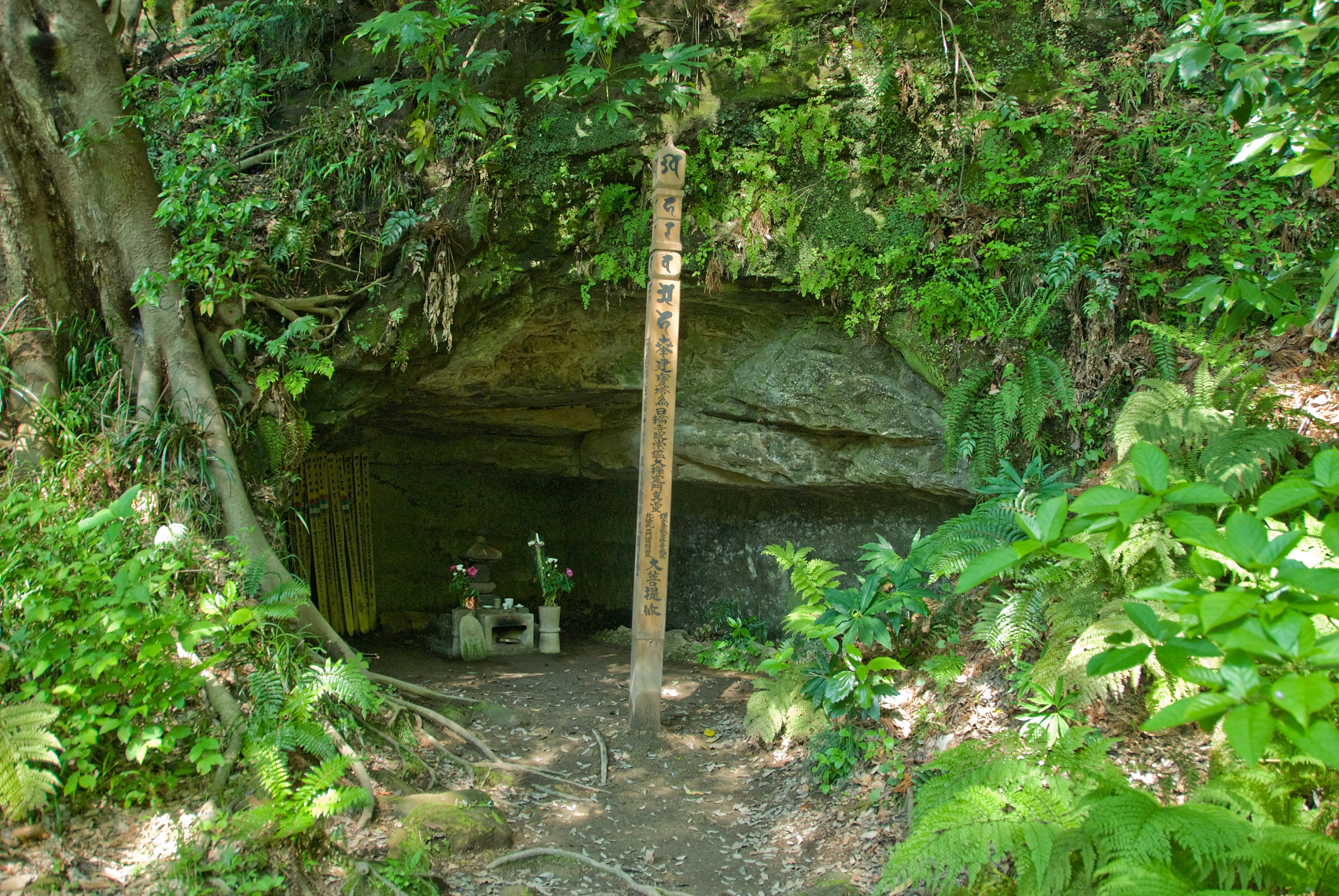 the yagura where allegedly last regent Hojo Takatoki (北条高時) committed Seppuku.